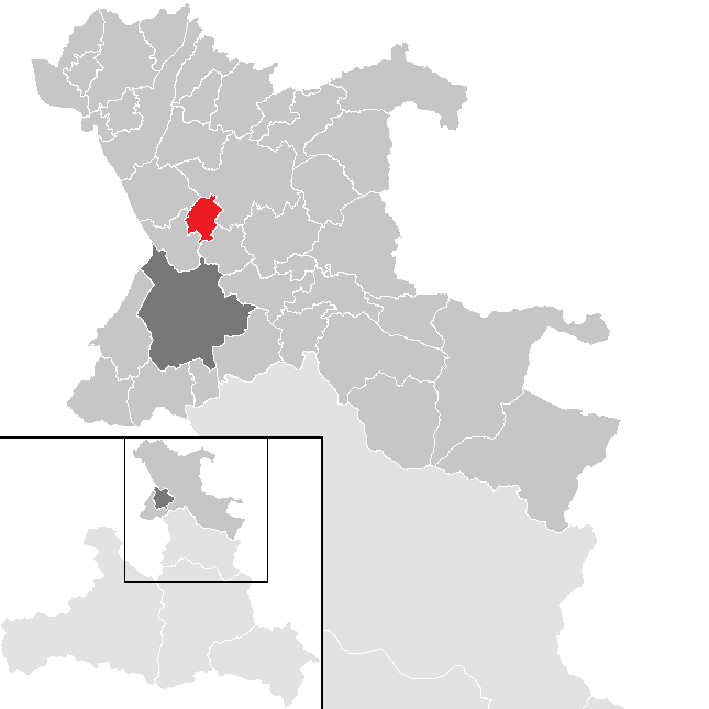 District Salzburg-Umgebung